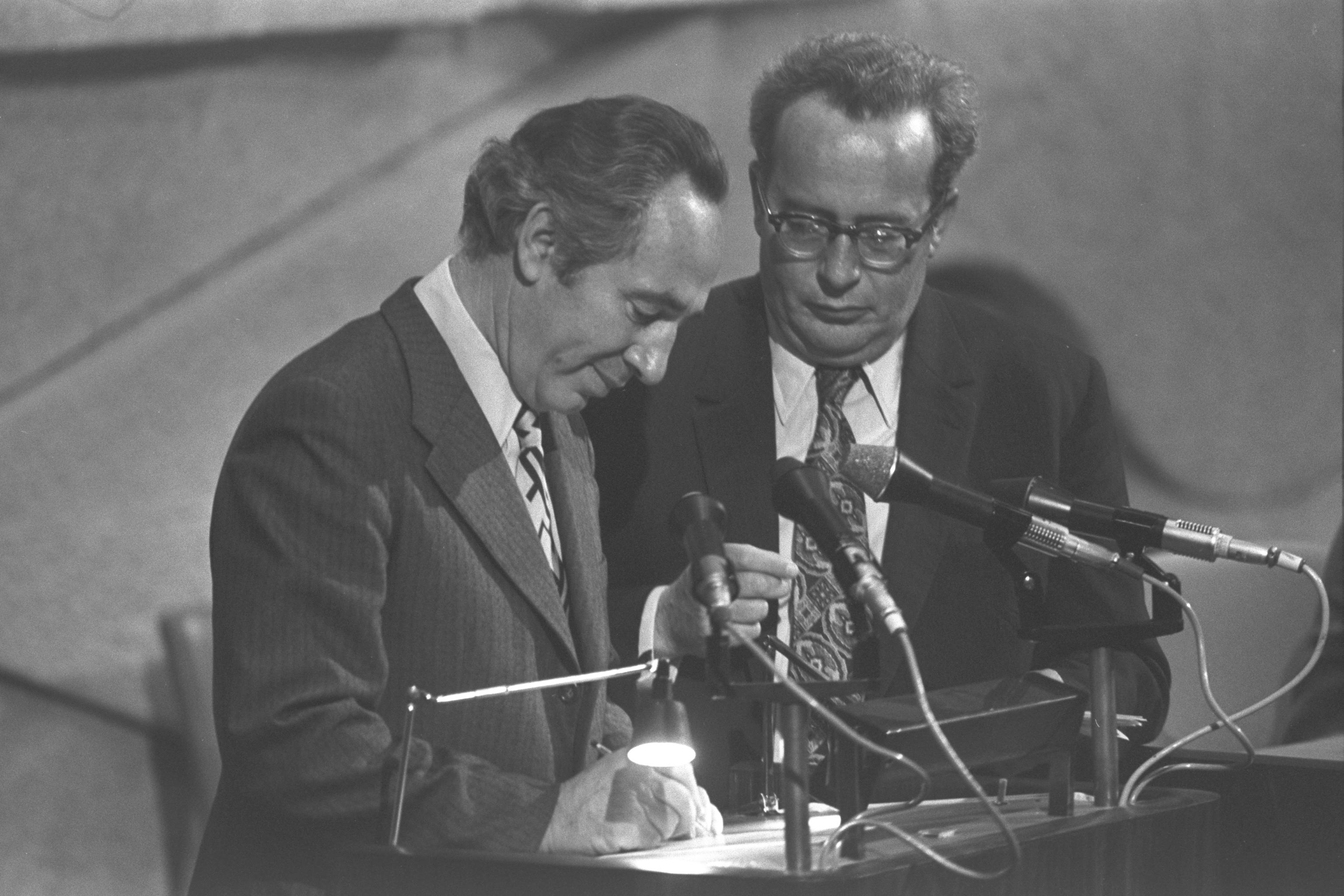 Minister of Information Shimon Peres signs his Declaration of Allegiance. שר המידע שמעון פרס חותם על הצהרת אמונים לממשלה, במליאת הכנסת בירושלים. Photo: Moshe Milner (1946–) Alternative names Miylner, Moše; Milner, Mosheh; Moshé Milner; Milner, M.; Mîlner, Moše; Miylner, MošehDescriptionIsraeli photographerצלם ישראליDate of birth 1946 Location of birth Germany Authority control : Q28750411 VIAF: 100999744 ISNI: 0000 0001 0804 0507 LCCN: n82072104 GND: 115699732 BNF: 15548788n WorldCat creator QS:P170,Q28750411 , 03/10/1974